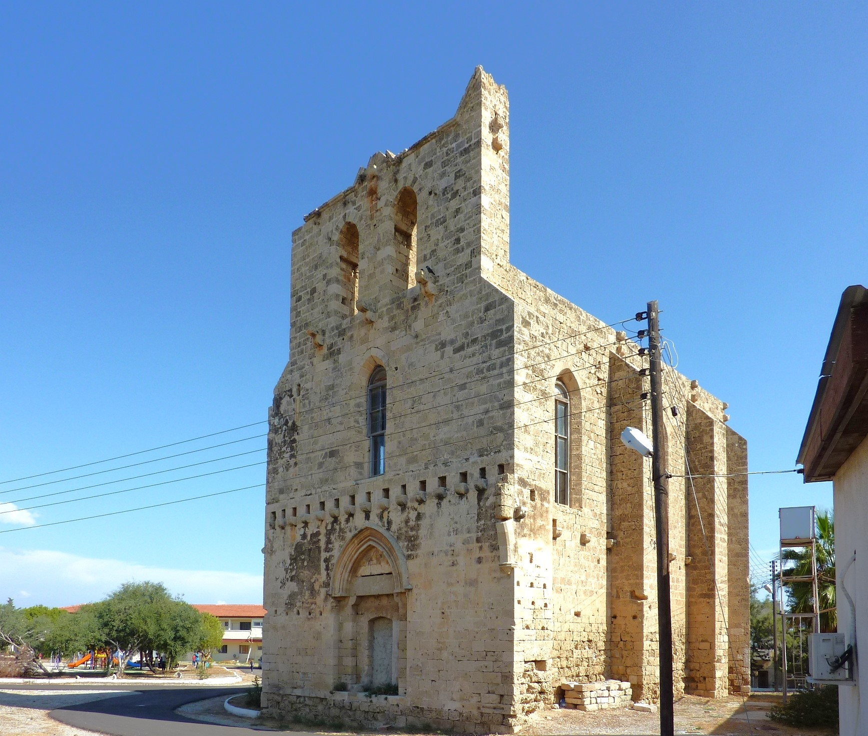 St. Anne, Famagusta